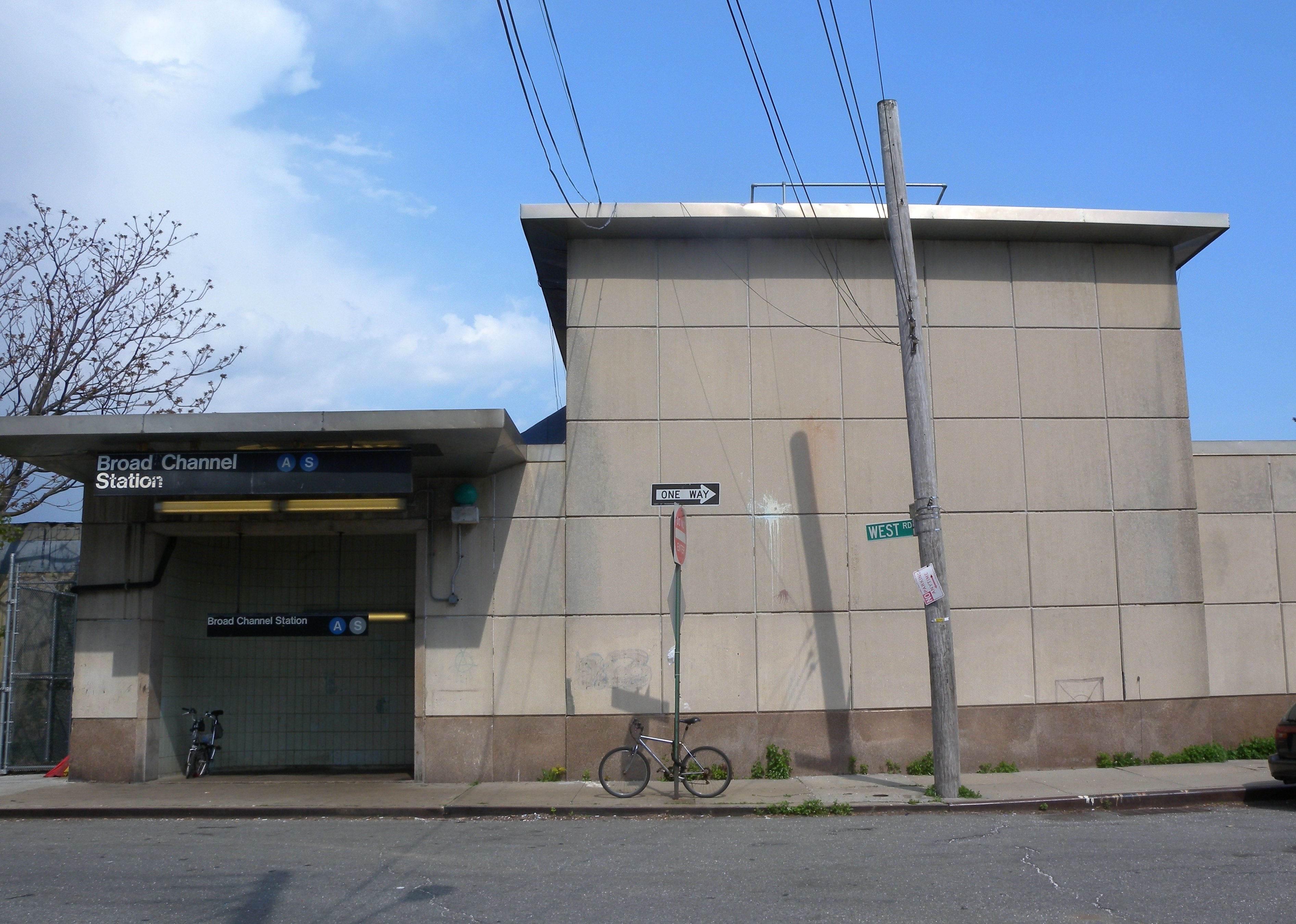 Looking east across West Road at station as afternoon storm clouds gather.